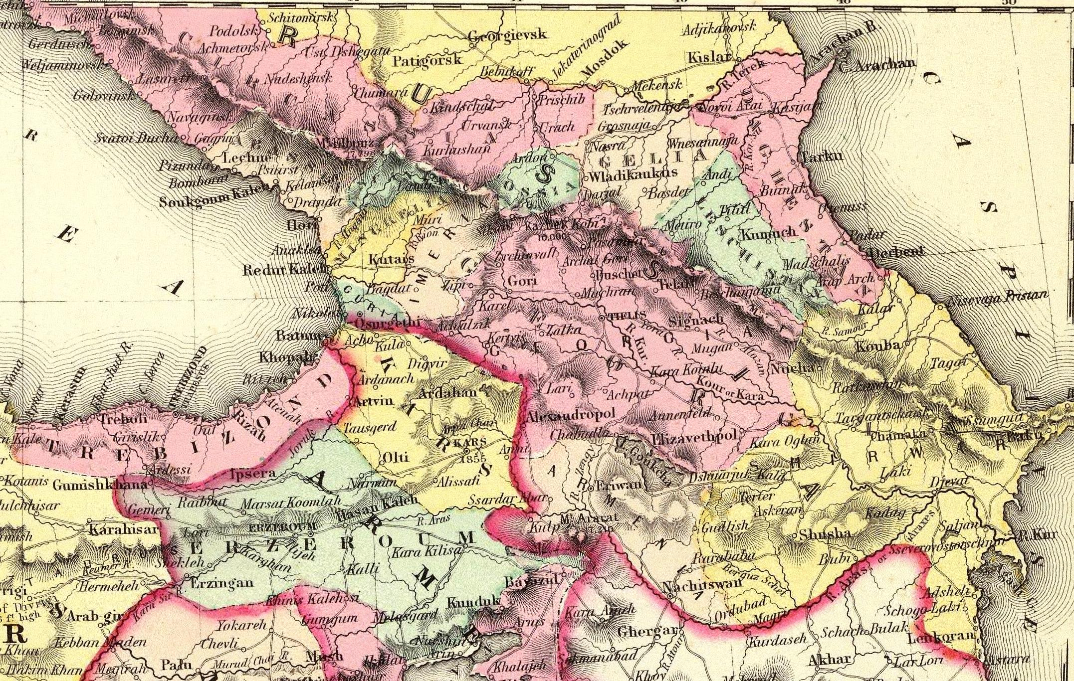 Turkey In Asia And The Caucasian Provinces Of Russia. Published By J.H. Colton & Co. No. 172 William St. New York. Entered ... 1855 by J.H. Colton & Co. ... New York. No. 25